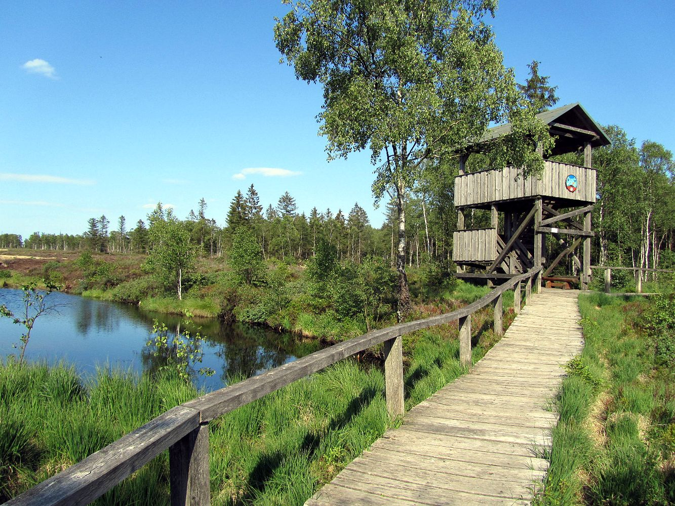 Germany / Mountains Solling: view to tower in the hill moor "Mecklenbruch"